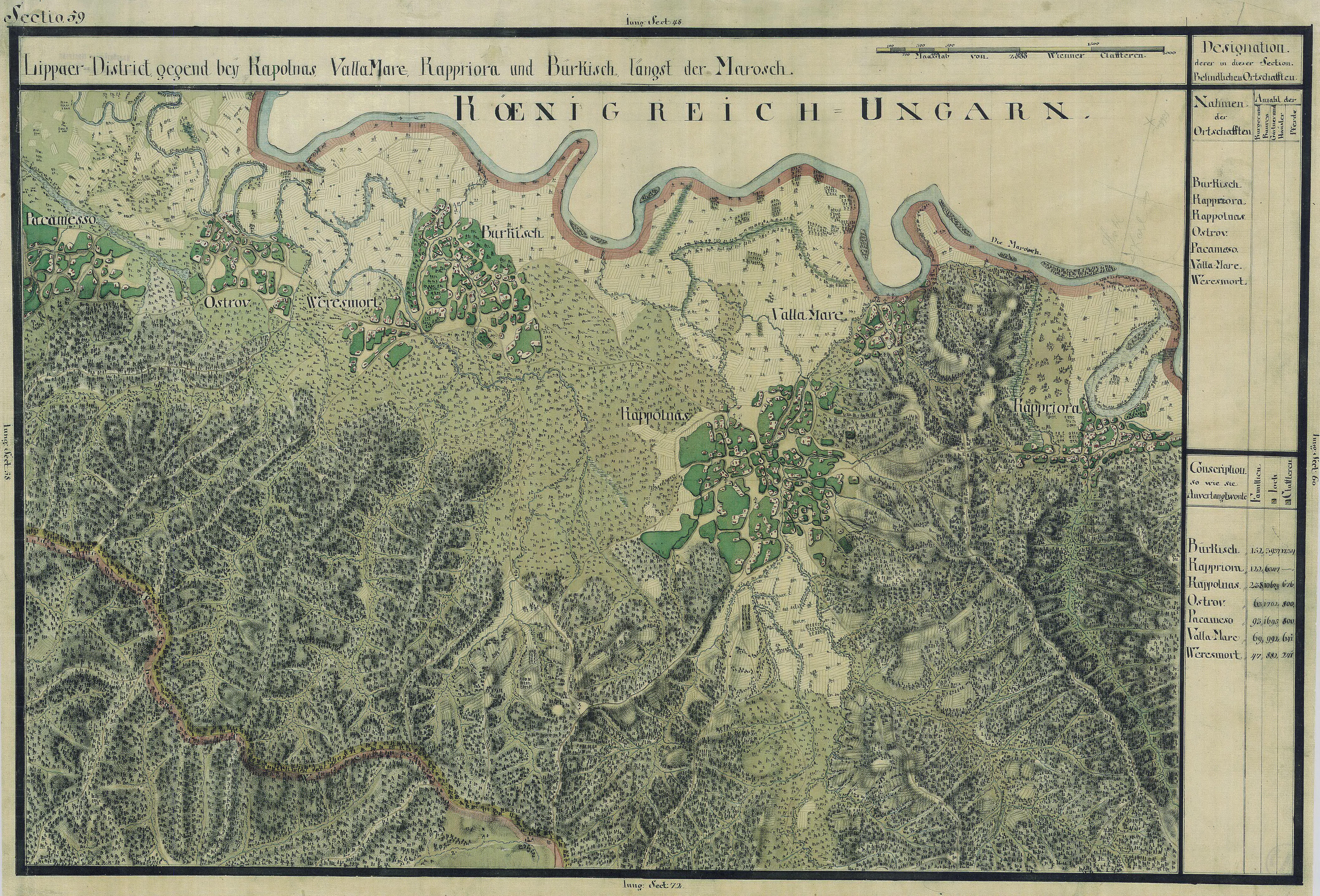 The Banat region in the cadastral maps: Josephinische Landesaufnahme, 1769-72. Josephinische Landaufnahme pg059